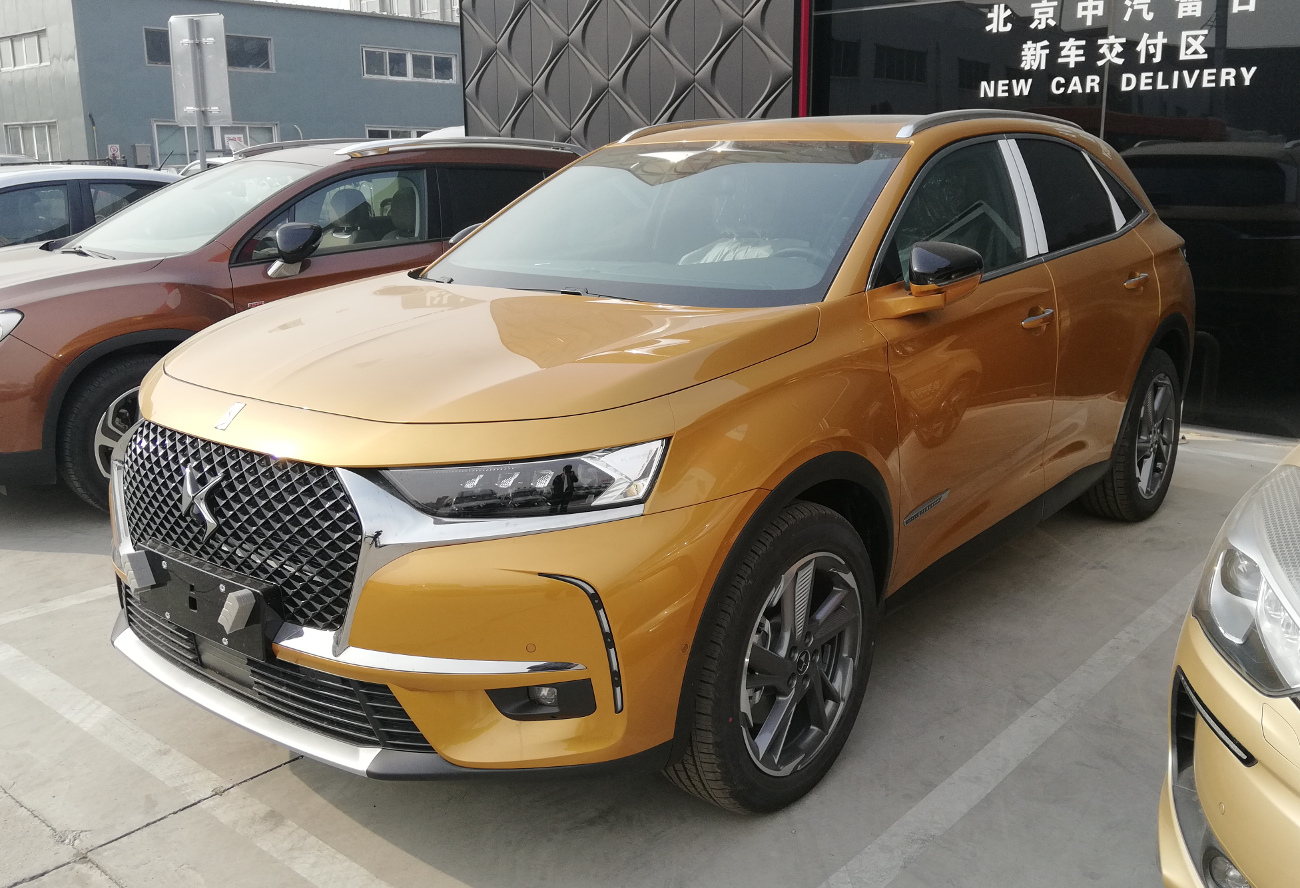 DS 7 Crossback photographed in Beijing, China.